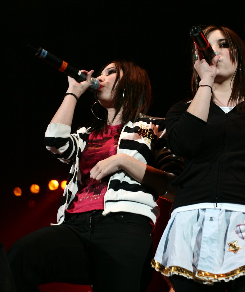 The Veronicas in concert at the KISS 106.1 Jingle Bell Bash 8